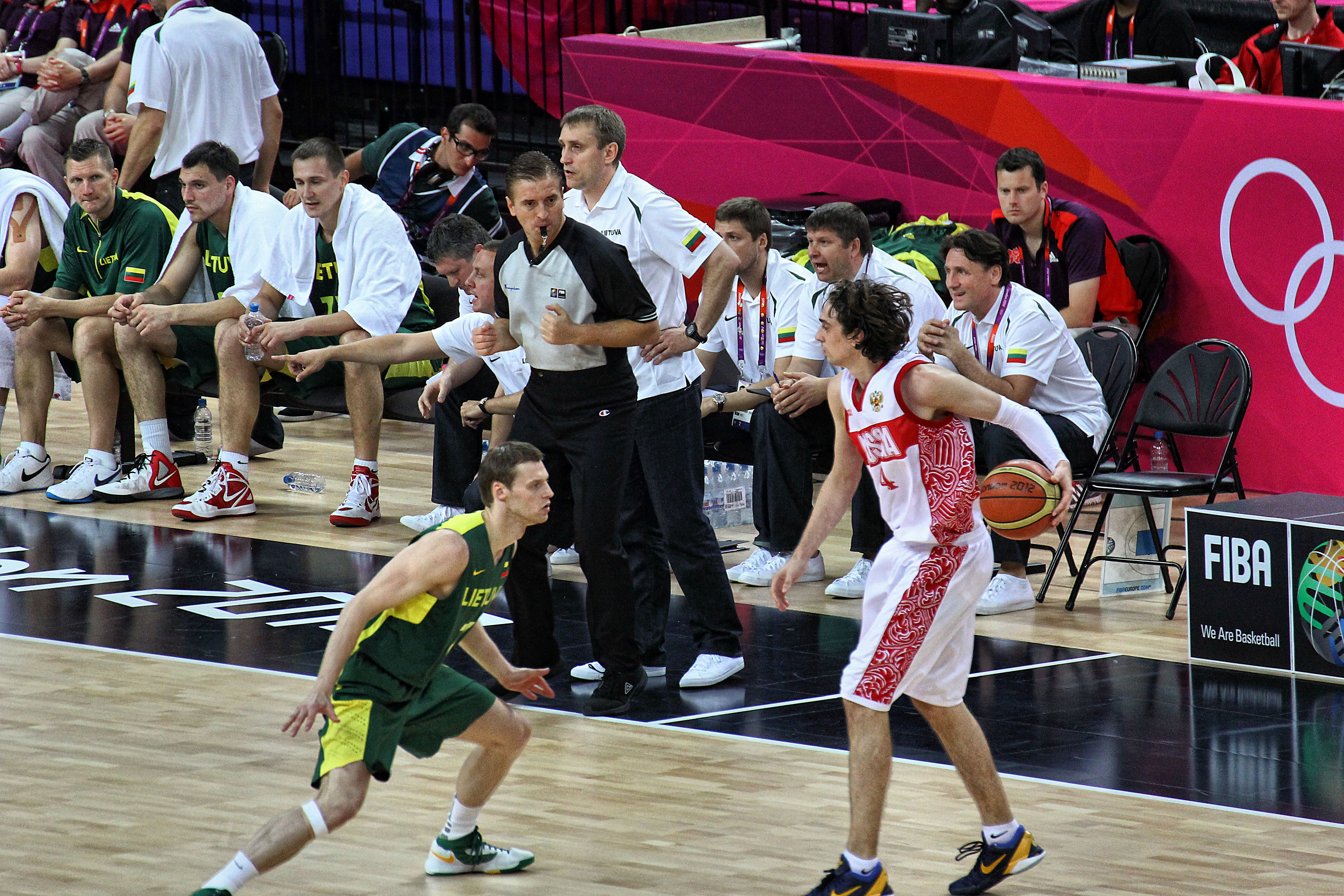 Alexey Shved of Russia being guarded by Martynas Pocius of Lithuania.